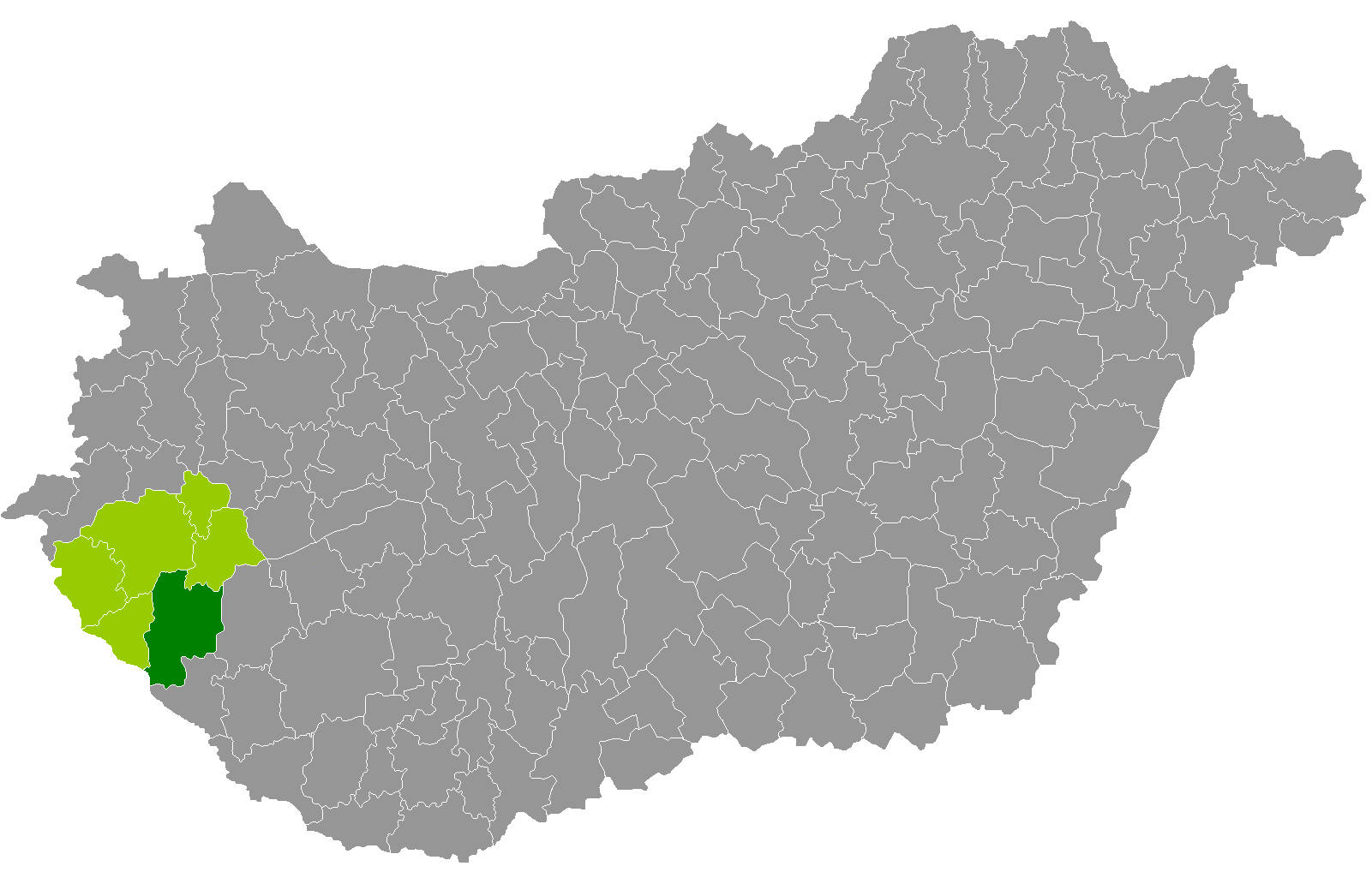 Location of Nagykanizsa District, Zala, Hungary